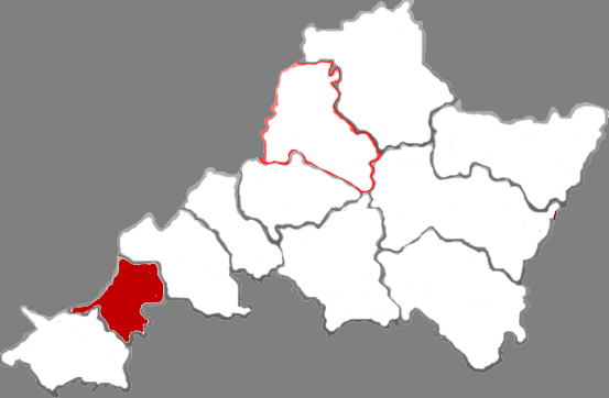 Location of Jiexiu county-level city in JinzhongCity, China